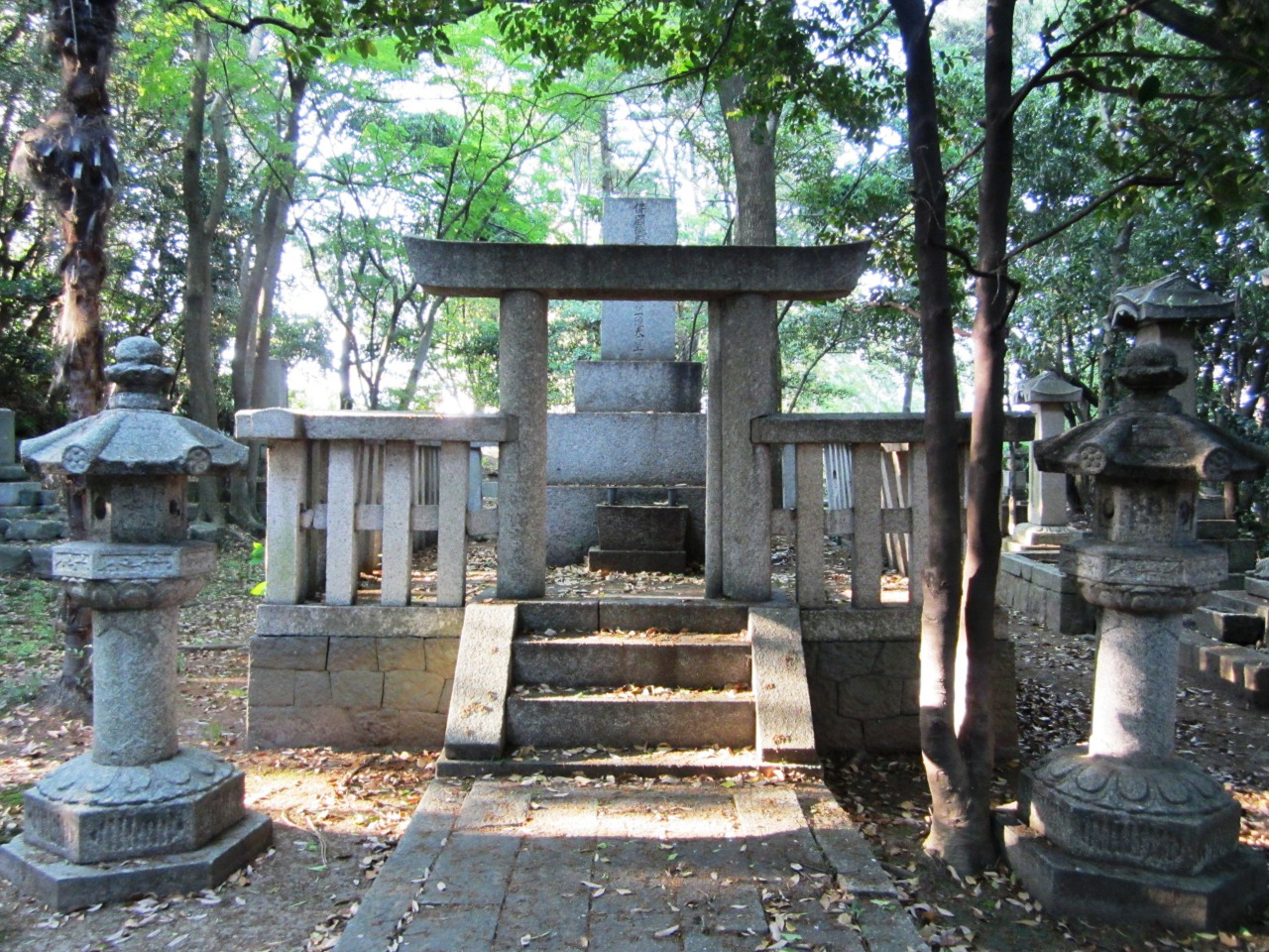 Matsudaira Sadanaga's grave in Kuwana, Mie.